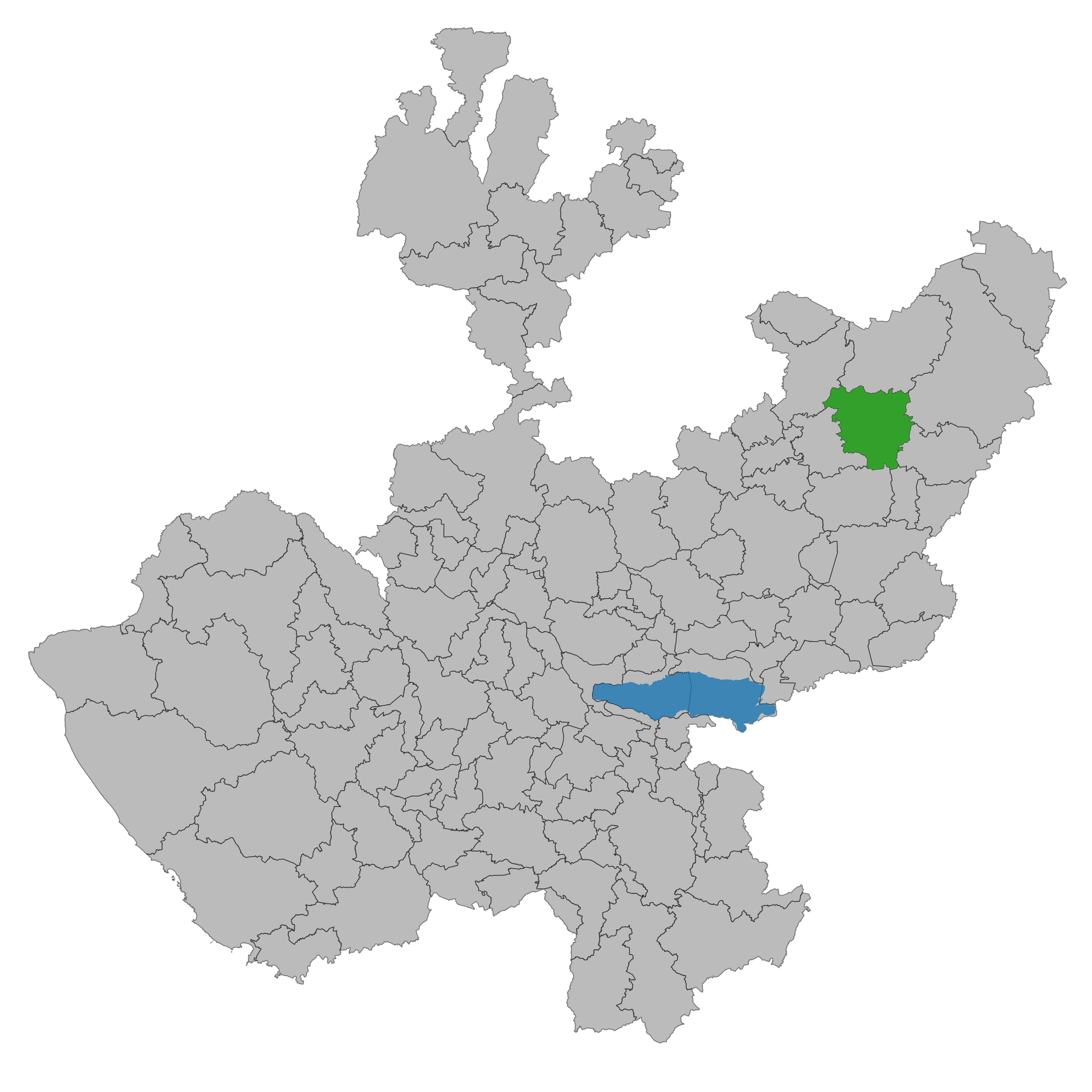 Municipality of Jalisco. Prepared with the software QGIS version 2.8.2 Wien & with information of SCINCE 2010 version 05/2013